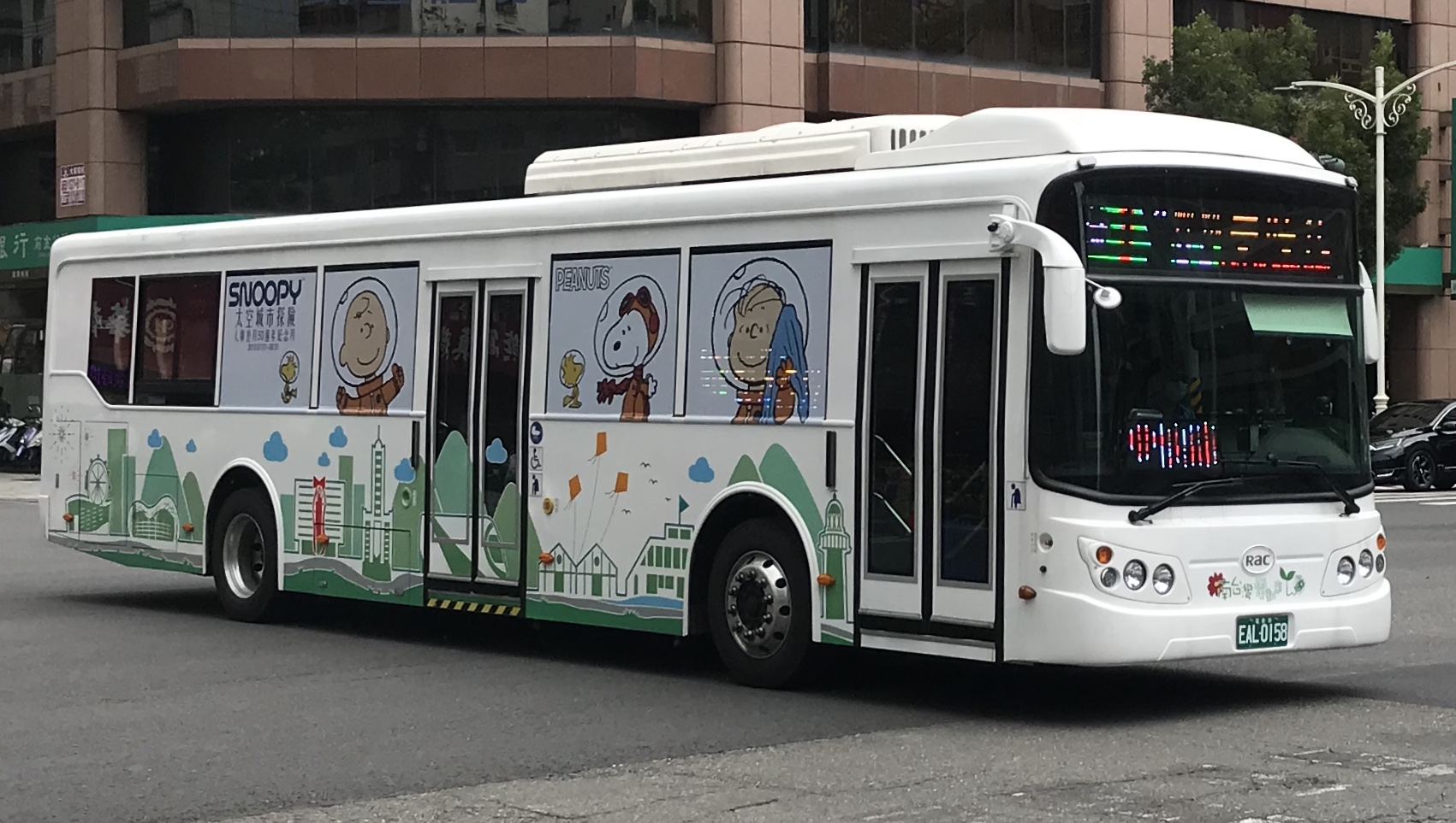 ST Bus EAL-0158